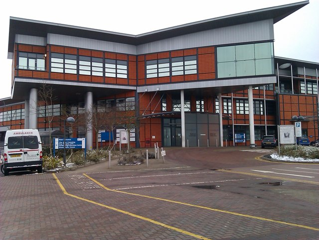 Princess Royal University Hospital main entrance